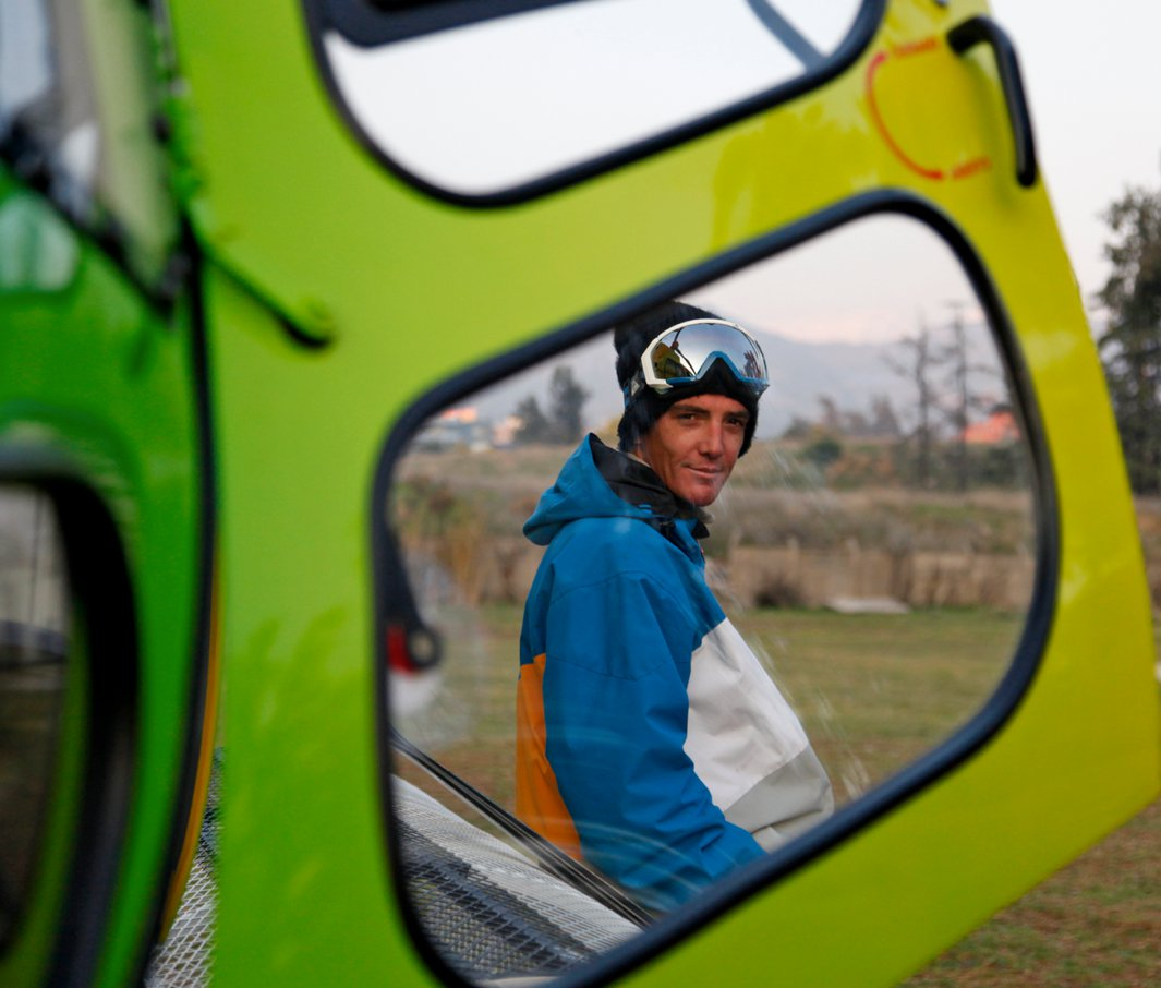 Candide Thovex in Santiago de Chile. 2009